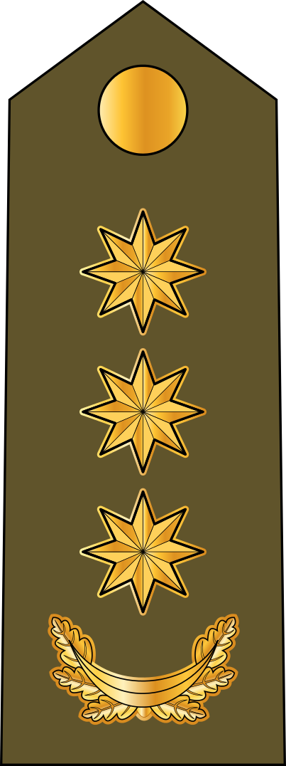 Colonel of Azerbaijan's Land Force